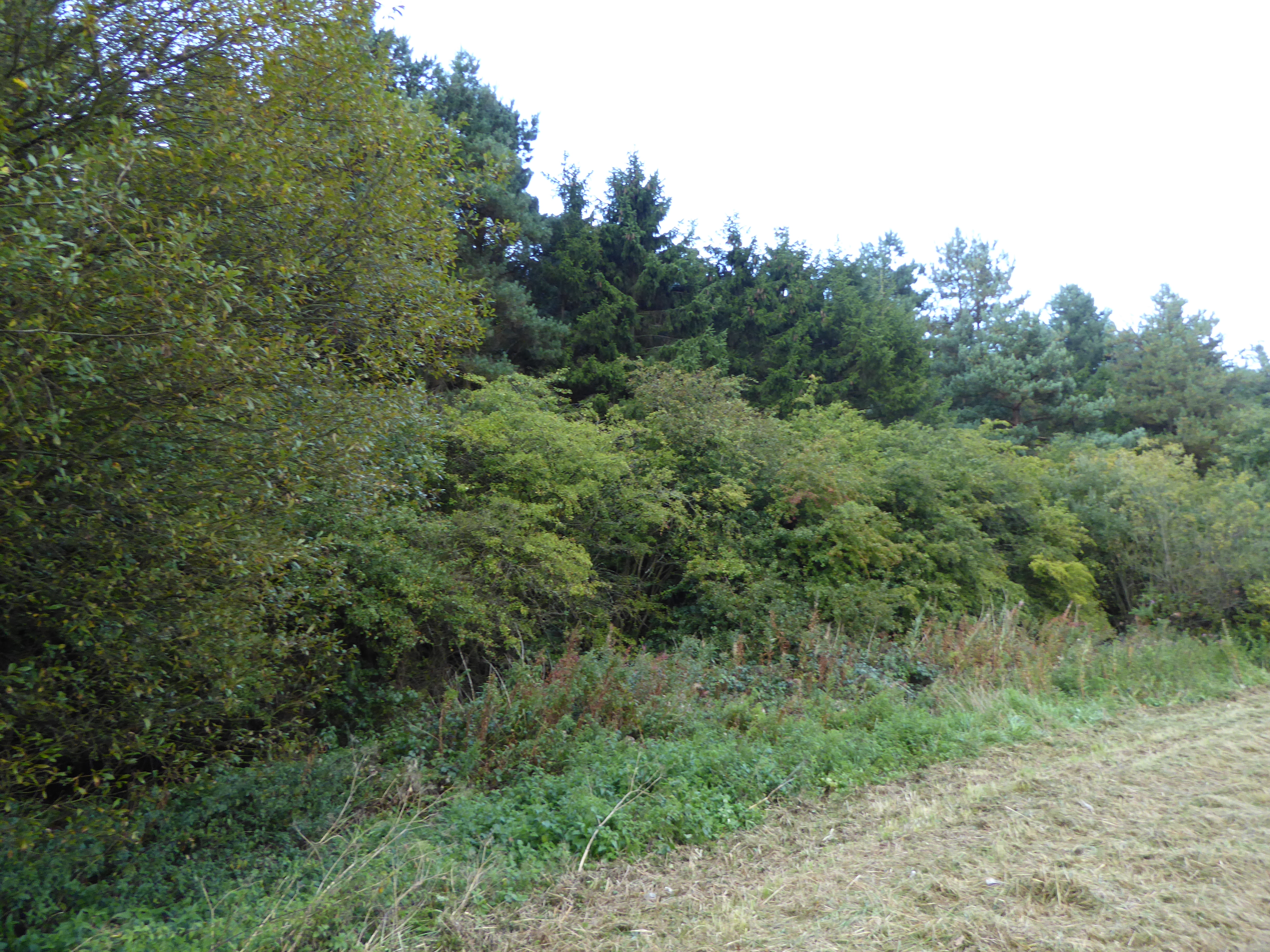 Burley Wood is part of Burley and Rushpit Woods Site of Special Scientific Interest east of Oakham in Rutland.